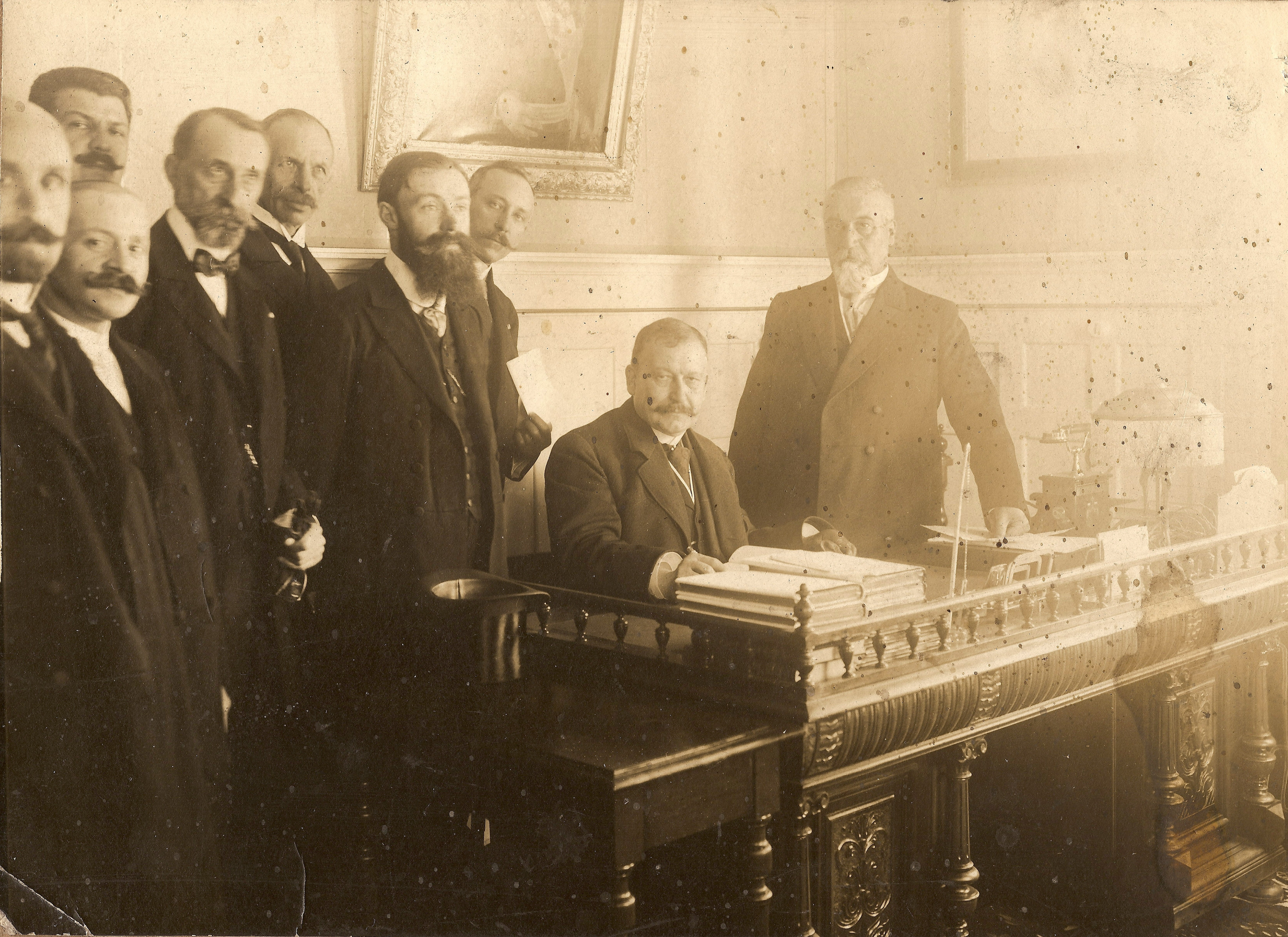 The mayor of Paris, Rusel, signs in the Municipal Golden Book. Featured: the mayor of Sofia, Haralampi Stoyanov, Hristo Zankov, Radi Radev, Hristo G. Popov, Ivan St. Geshev and others